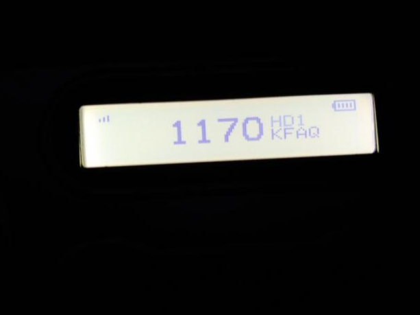 KFAQ Broadcasting in HD.